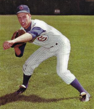 Professional baseball player Kenny Holtzman